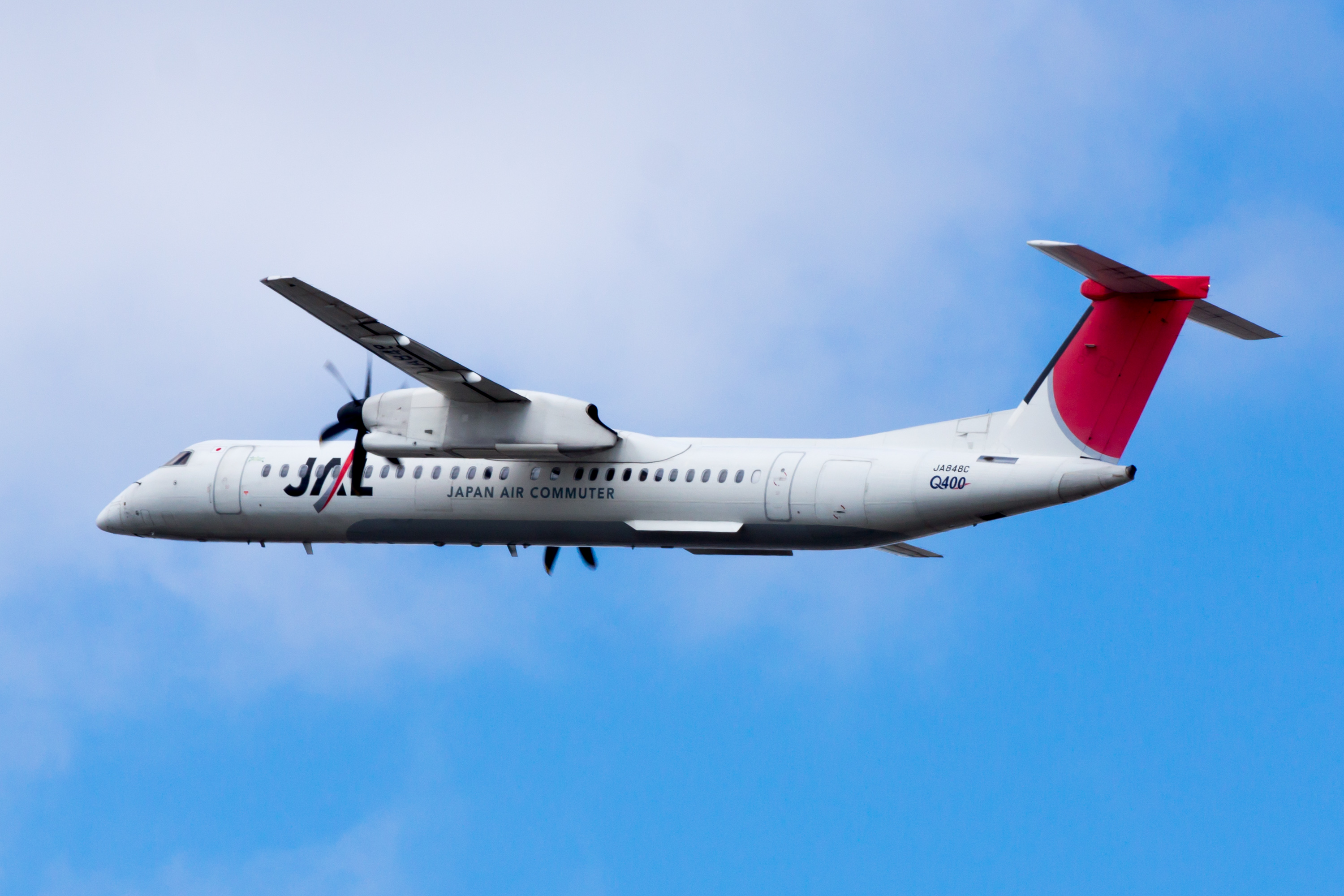 Japan Air Commuter / 日本エアコミューター Bombardier DHC-8-402Q Dash 8 JA848C 3X2331, Departed to Oki Island Osaka Itami Int'l Airport